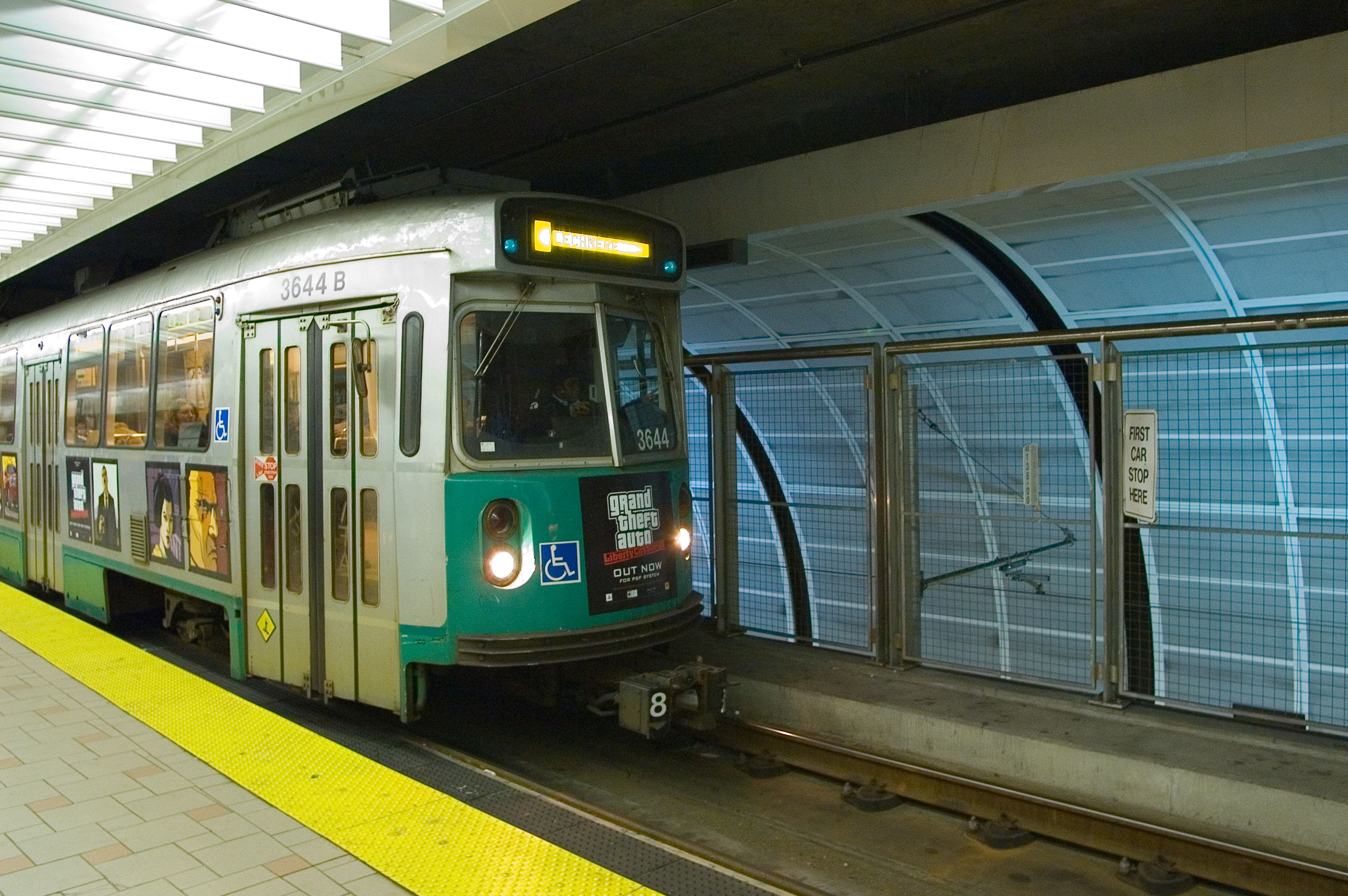 A Type 7 (Kinki-Sharyo) train enters the mezzazine level of North Station bound for Lechmere.